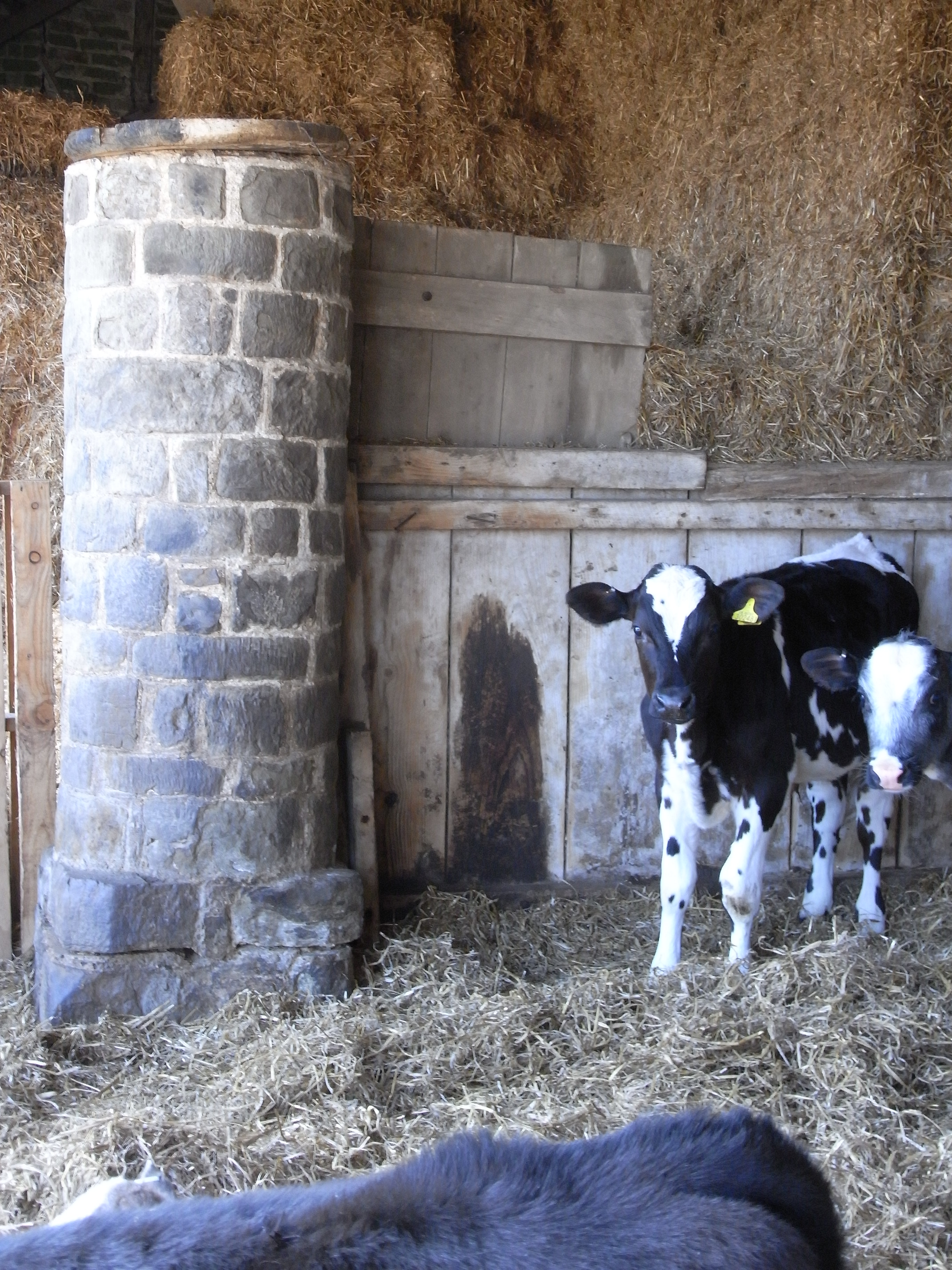 Stone Pillar in cow barn, Heanton Barton, Petrockstowe, Devon. Unique remnant of demolished mansion of Heanton Satchville which formerly stood on the site. Possibly part of a chapel.